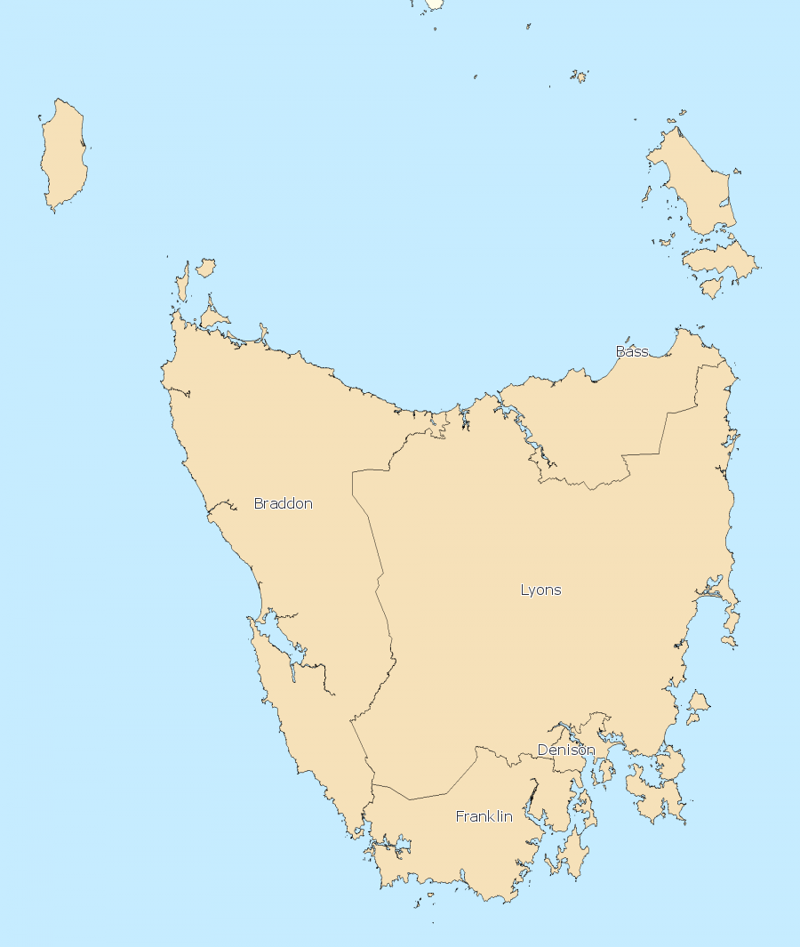 Incorporates or developed using Administrative Boundaries ©PSMA Australia Limited licensed by the Commonwealth of Australia under Creative Commons Attribution 4.0 International licence (CC BY 4.0). Derived from State and Territory Boundaries from the Australian Bureau of Statistics under Creative Commons Attribution 2.5 Australia license (CC BY 2.5 AU)